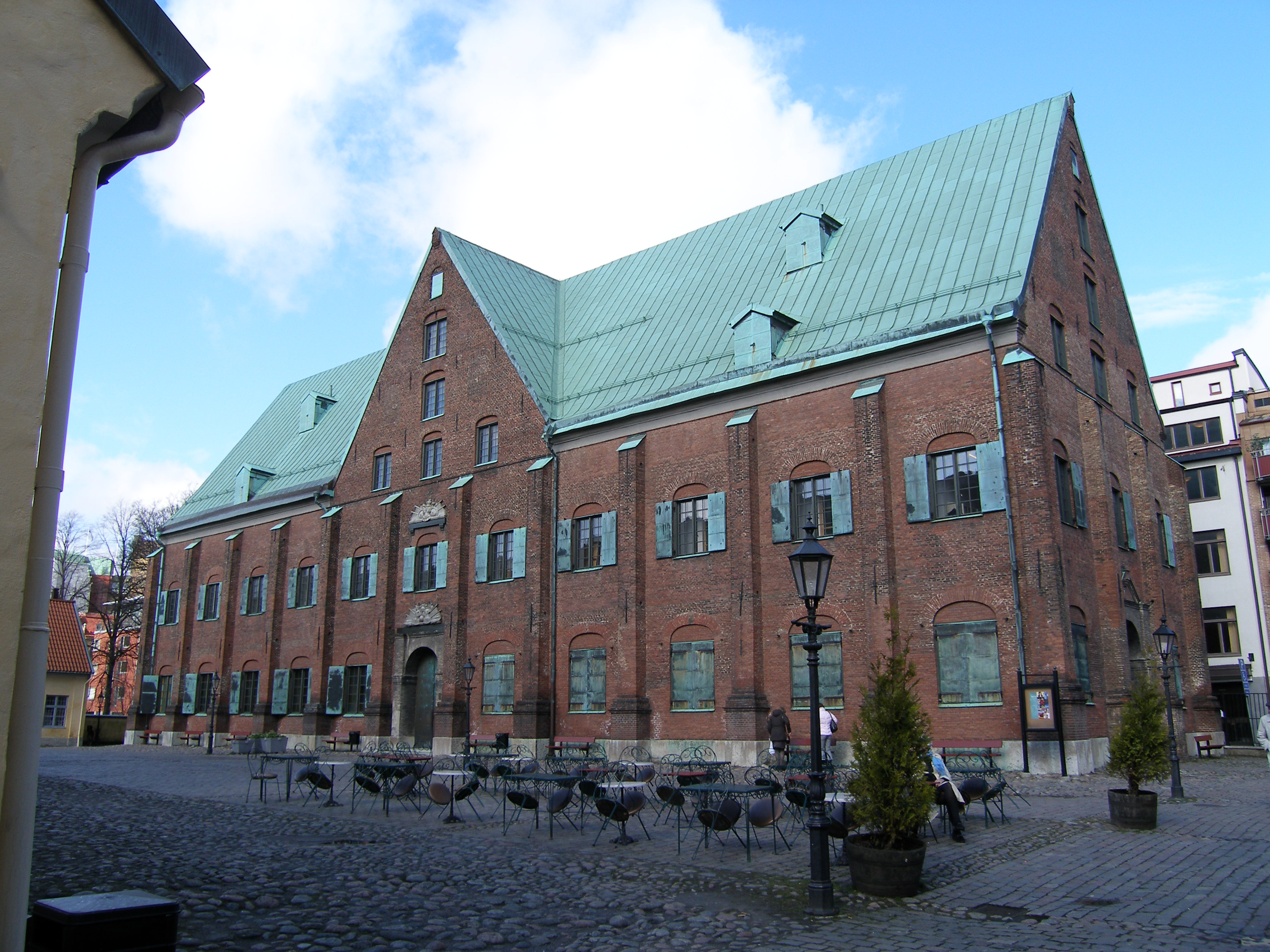 Kronhuset, Gothenburg, Sweden.